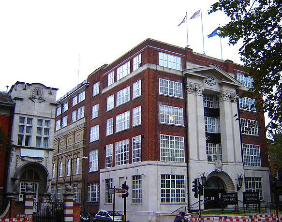 Southwark Town Hall, Peckham Road, Southwark, London. 29 October 2005. Photographer: Fin Fahey